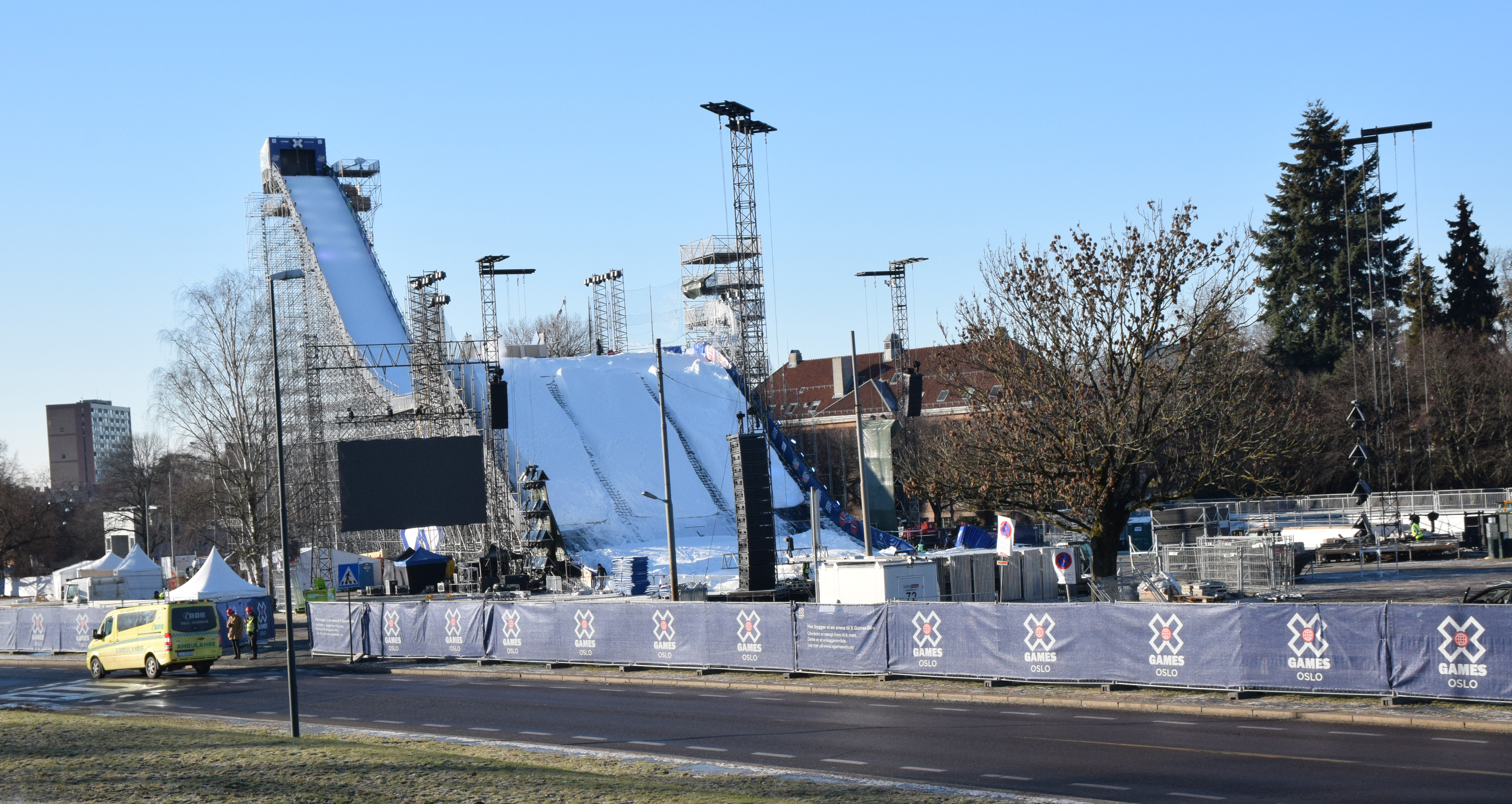 Arena in Sirkustomta, Tøyen, Oslo, for X Games 2016